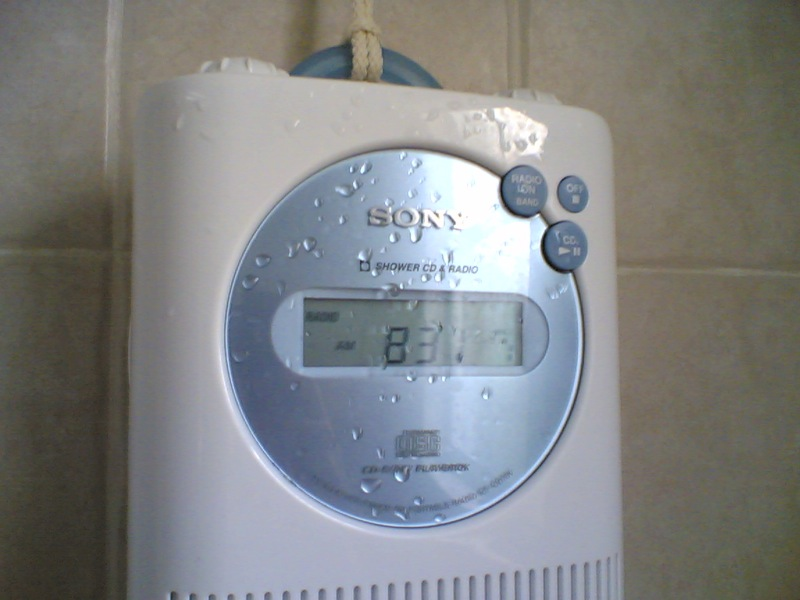 Listening to the news on shower radio